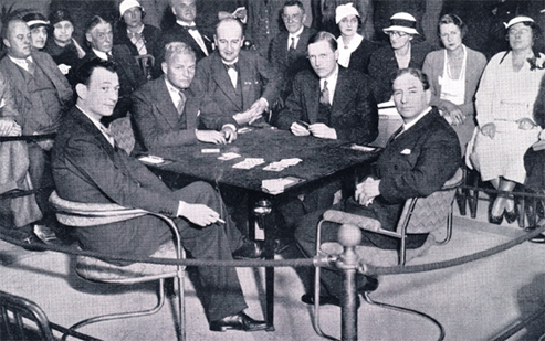 printed photograph of some participants in Beasley-Culbertson match